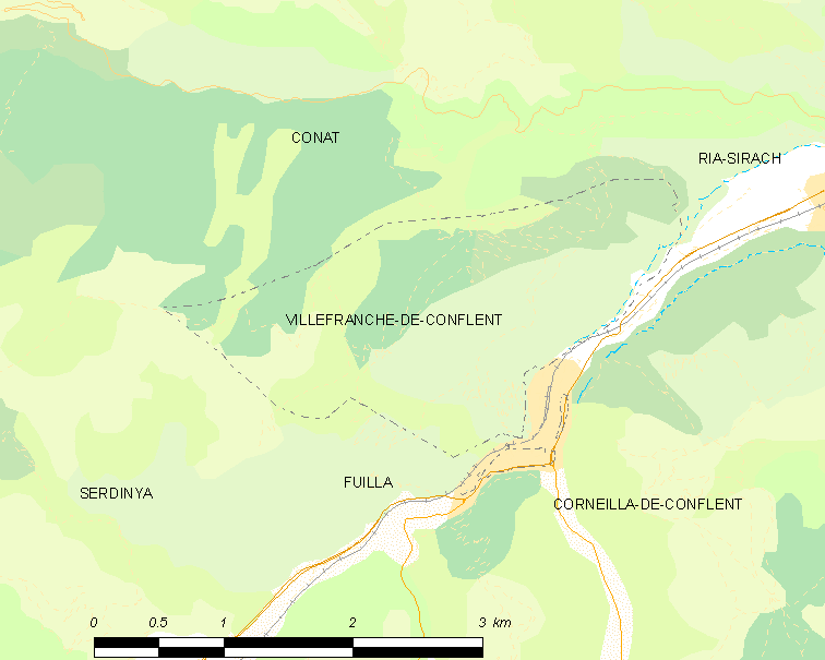 Map of French municipality